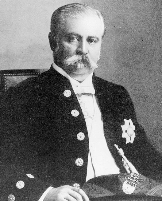 Sir Alfred Lewis Jones, (1845 - 1909)